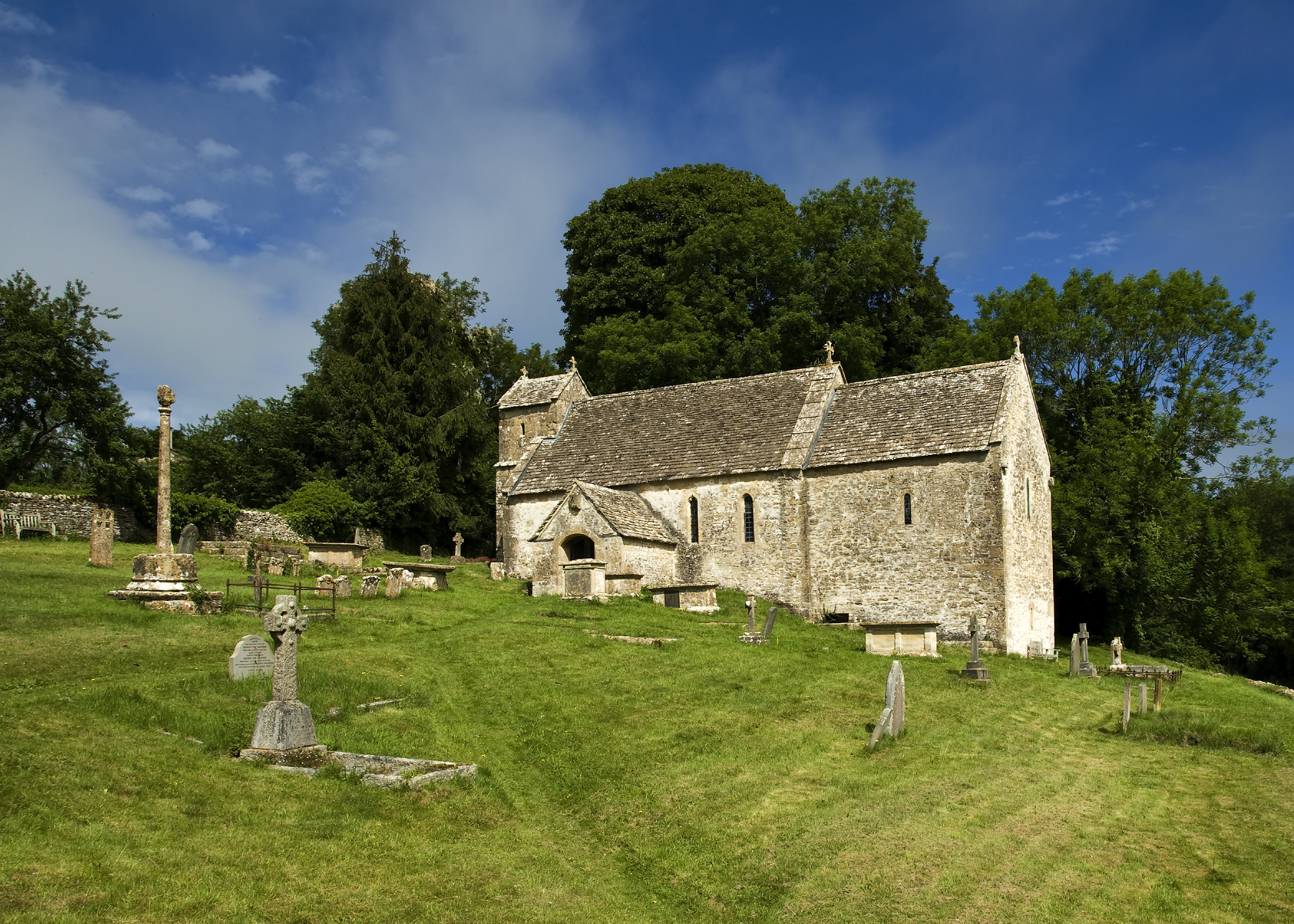 The church at Duntisbourne Rouse is dedicated to St. Michael and is located on the side of a hill overlooking the Dunt valley. The church dates from Saxon times and has been designated a Grade I listed building by English Heritage.